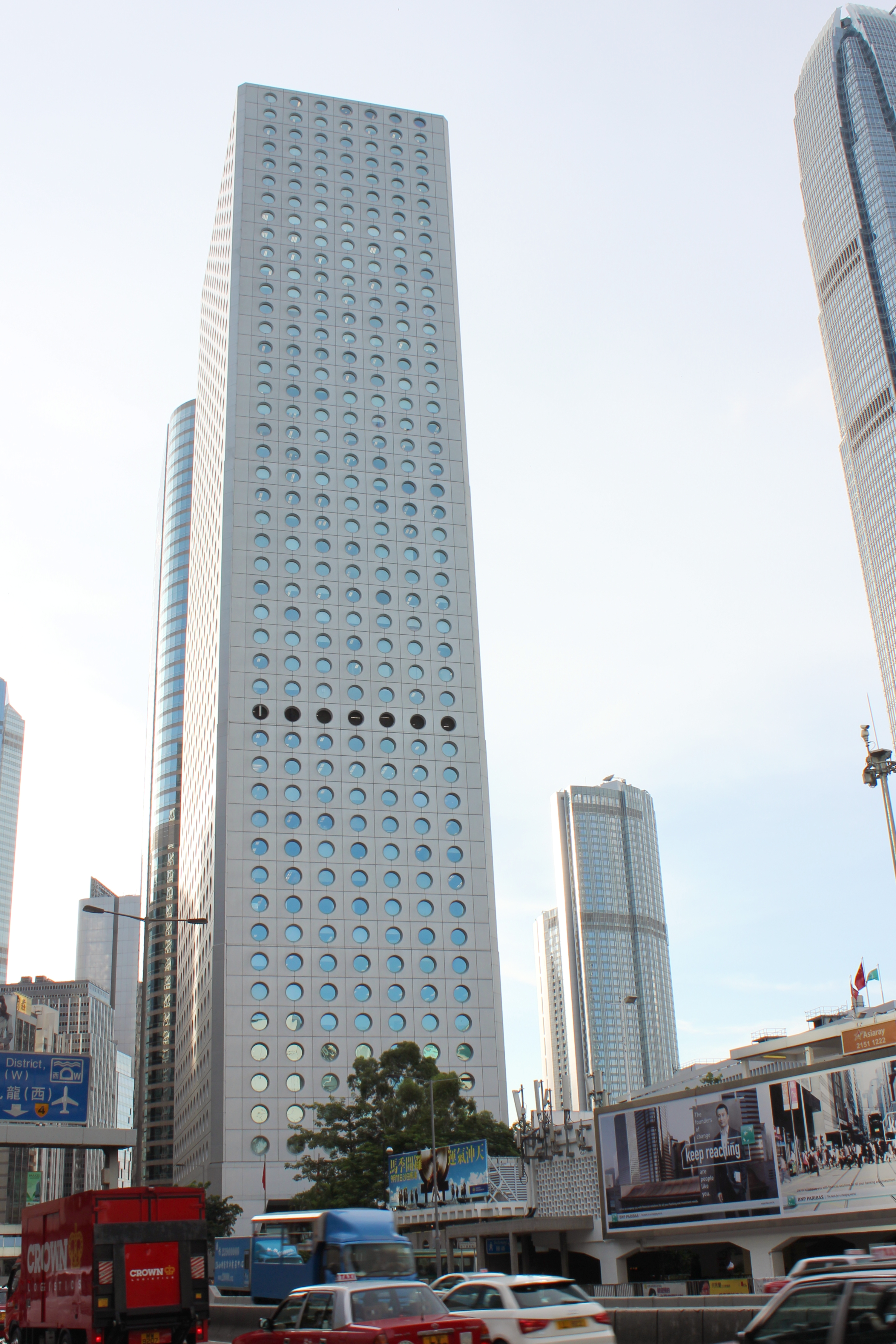 Jardine House in Central, Hong Kong.